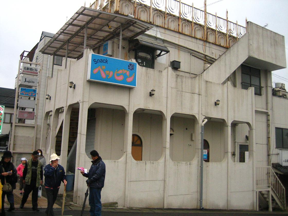 A picture of a 'Snack' bar (sunakku bā or hostess bar) taken in Sukagawa, Fukushima Prefecture, Japan. Picture was taken with a Canon Power Shot SD450 Digital Elph camera and modified using a Paint Shop program on a laptop computer.